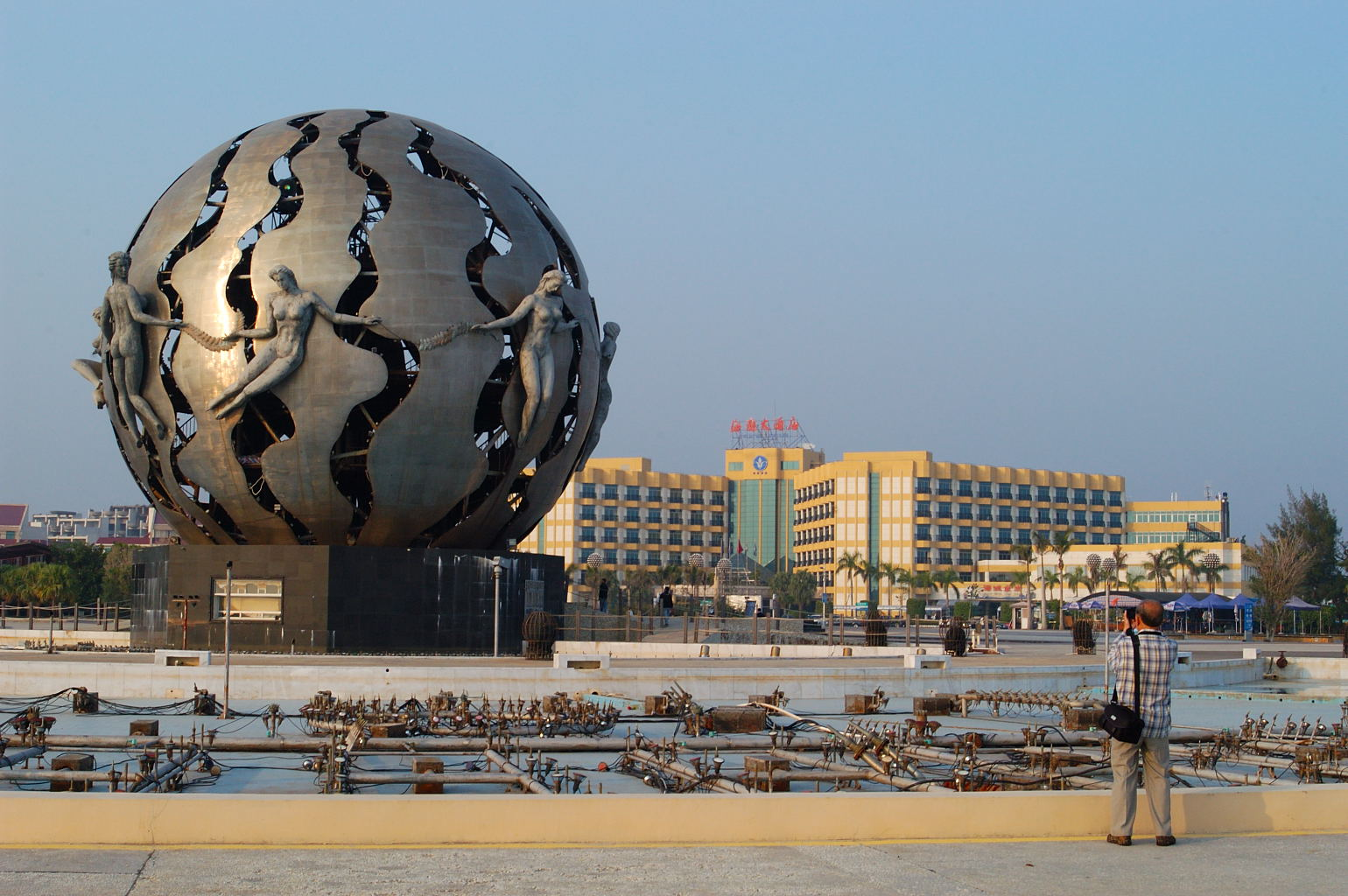 China Guang Xi proven, Bei Hai (North Sea) beach.